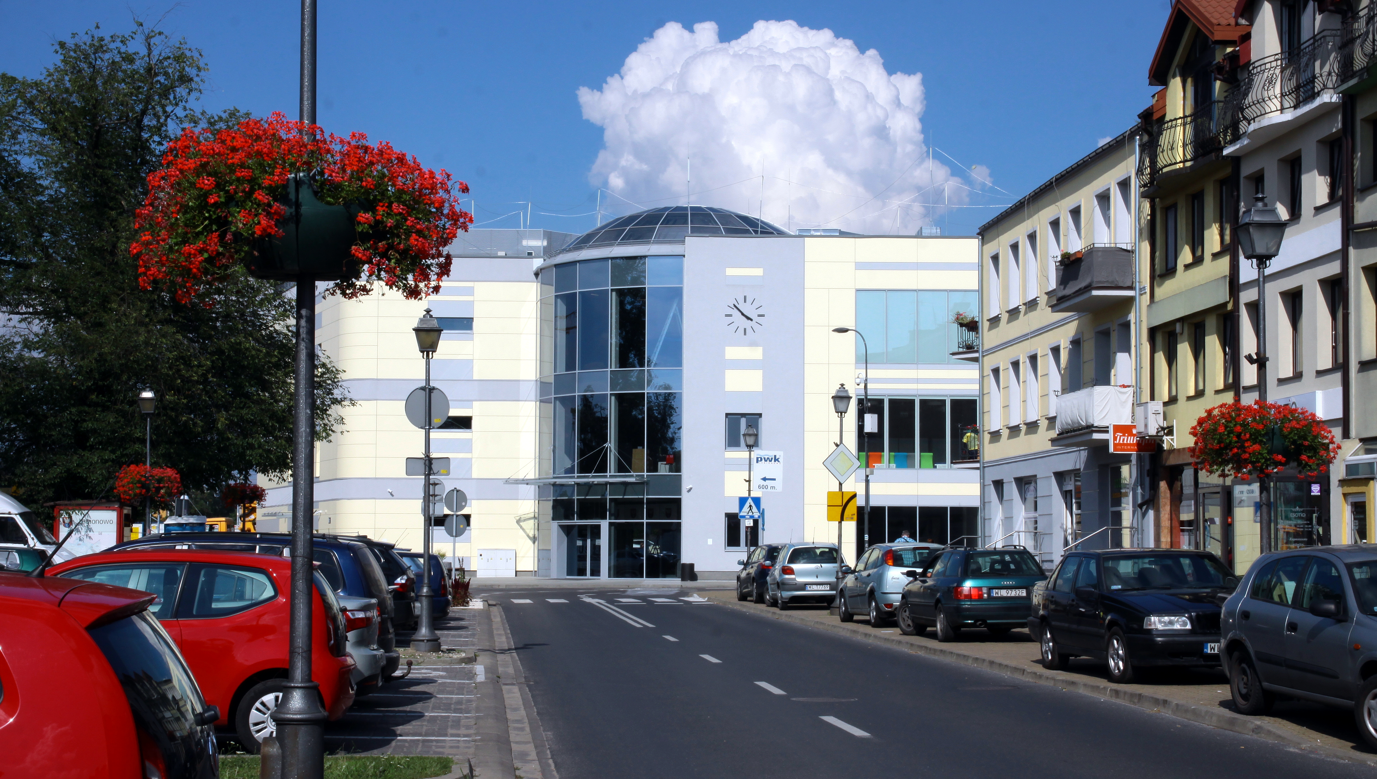 Railway station (PKP) built by the city Legionowo